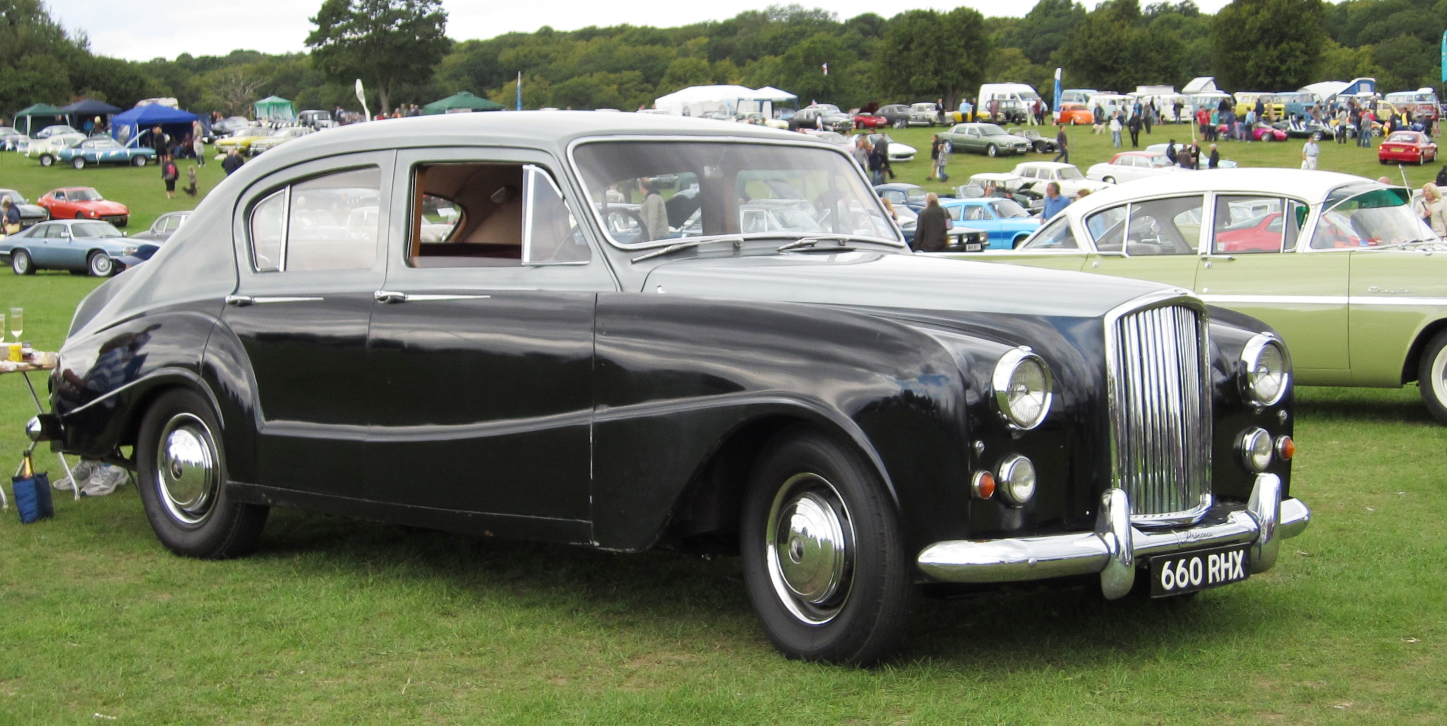 Princess IV, April 1958. Originally launched as the "Austin Princess IV" in 1956, this model was rechristened "Princess IV" in August 1957 to allow it to be sold by both Austin and Nuffield dealers. The Illustrated London News, March 9 1957, page 2 has an Austin Motor Company advertisement for the "Austin Princess IV" whilst Punch magazine, November 6 1957 has a British Motor Corporation advertisement for the "Princess IV", the latter advising the reader to "Ask any Austin or Nuffield Dealer..." "Vanden Plas" is recognised as the coachbuilder of the car in the Illustrated London News advertisement, but the term is not included in the name of the car. N.B. The colours of this car are upside down! They should be light colour on the sides, dark colour for the rest of the car.